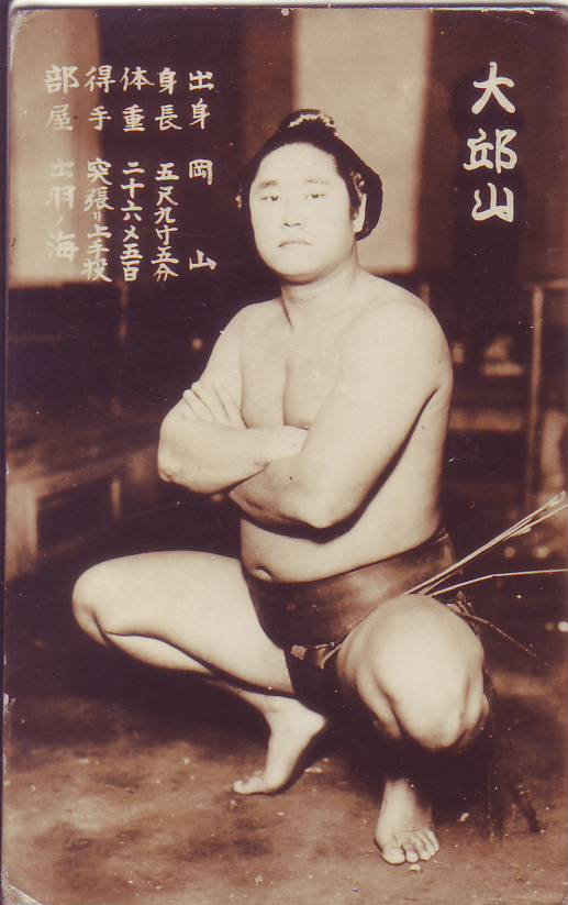 Bromide from Taikyuzan Takayoshi (Sumo wrestler).